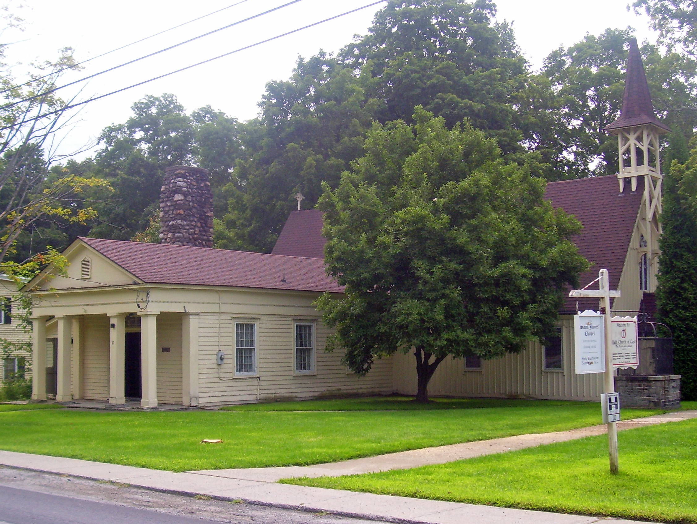 Bard Infant School and St. James Chapel, Hyde Park, NY, USA